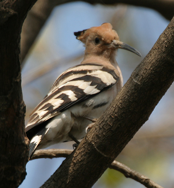 Common Hoopoe Upupa epops in Kolkata, West Bengal, India.